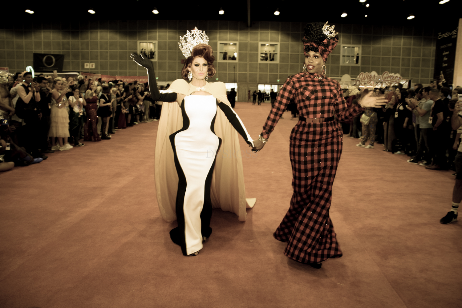 AllStars 4 Winners Trinity "the Tuck" Taylor and Monét X Change